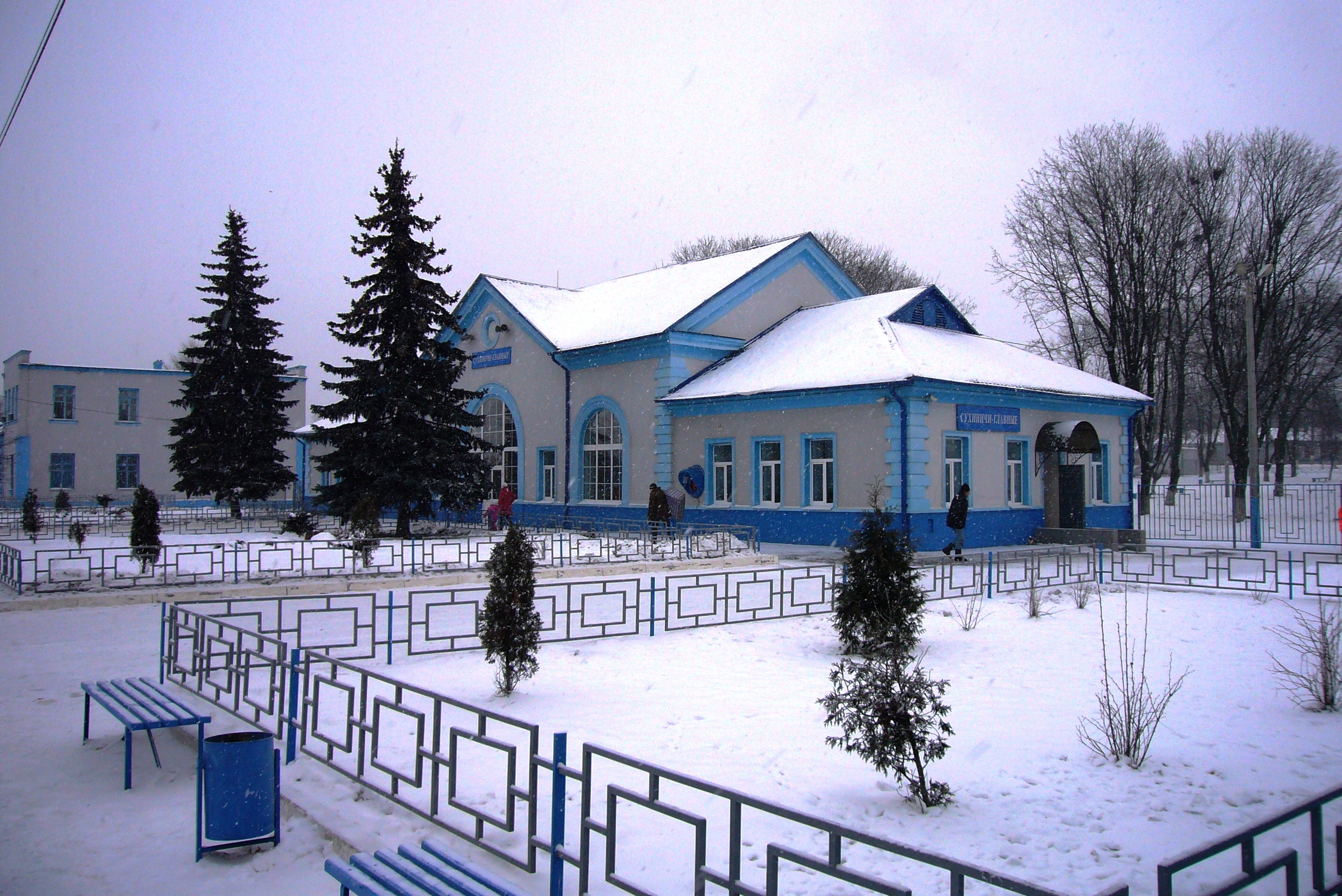 Main Sukhinichi Railway Station in winter, Kaluga Oblast, Russia.